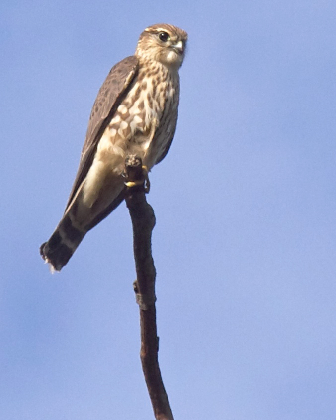 Merlin Falco columbarius perched and waiting for the next dragonfly meal at Washington Park Arboretum in Seattle.